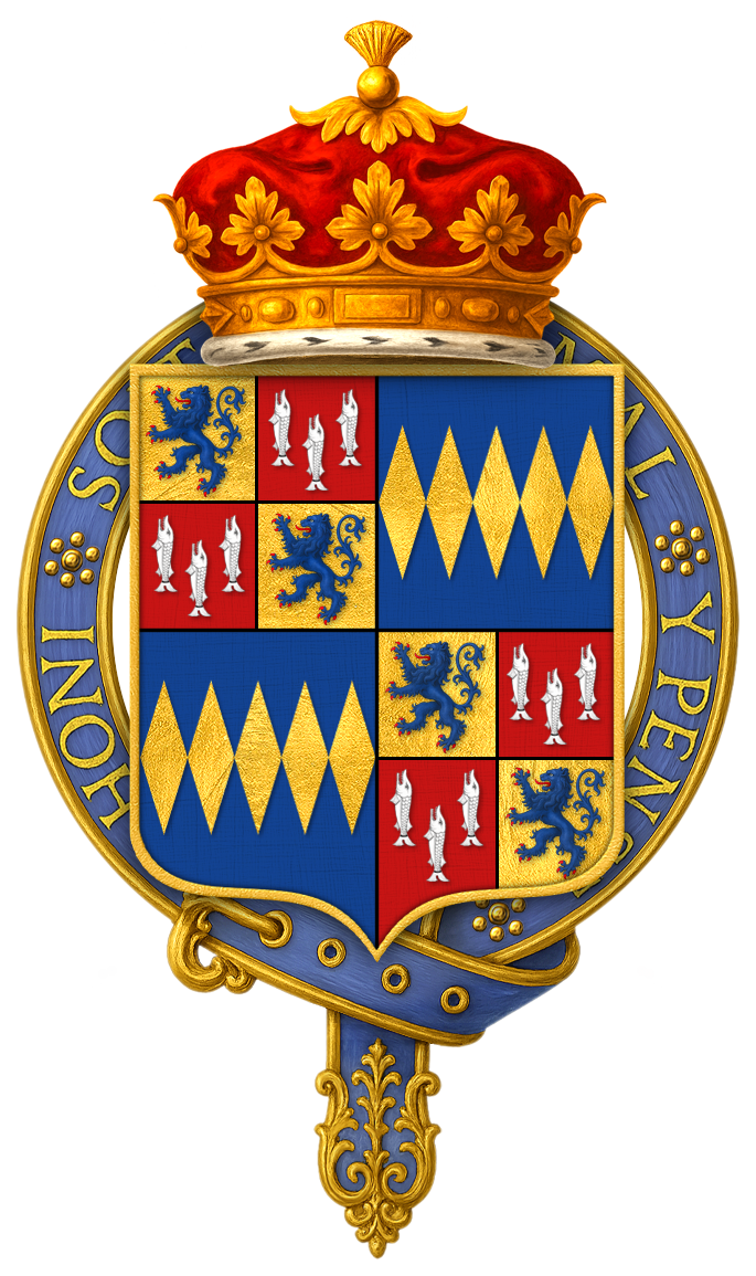 Garter encircled shield of arms of Henry Percy, 7th Duke of Northumberland, KG, as displayed on his Order of the Garter stall plate in St. George's Chapel.